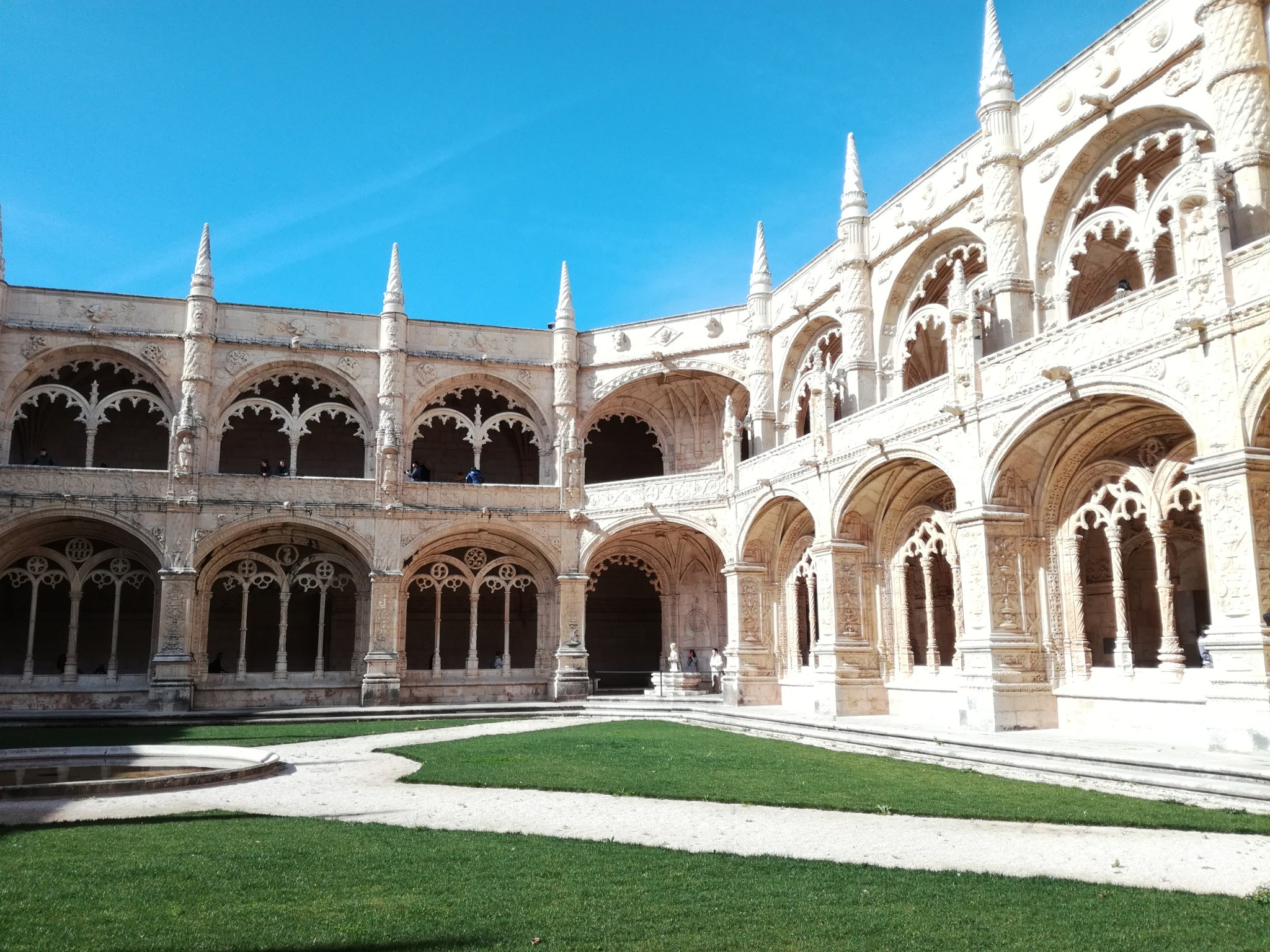 Cloister of the Monastery of the Hieronymites seen from the ground.